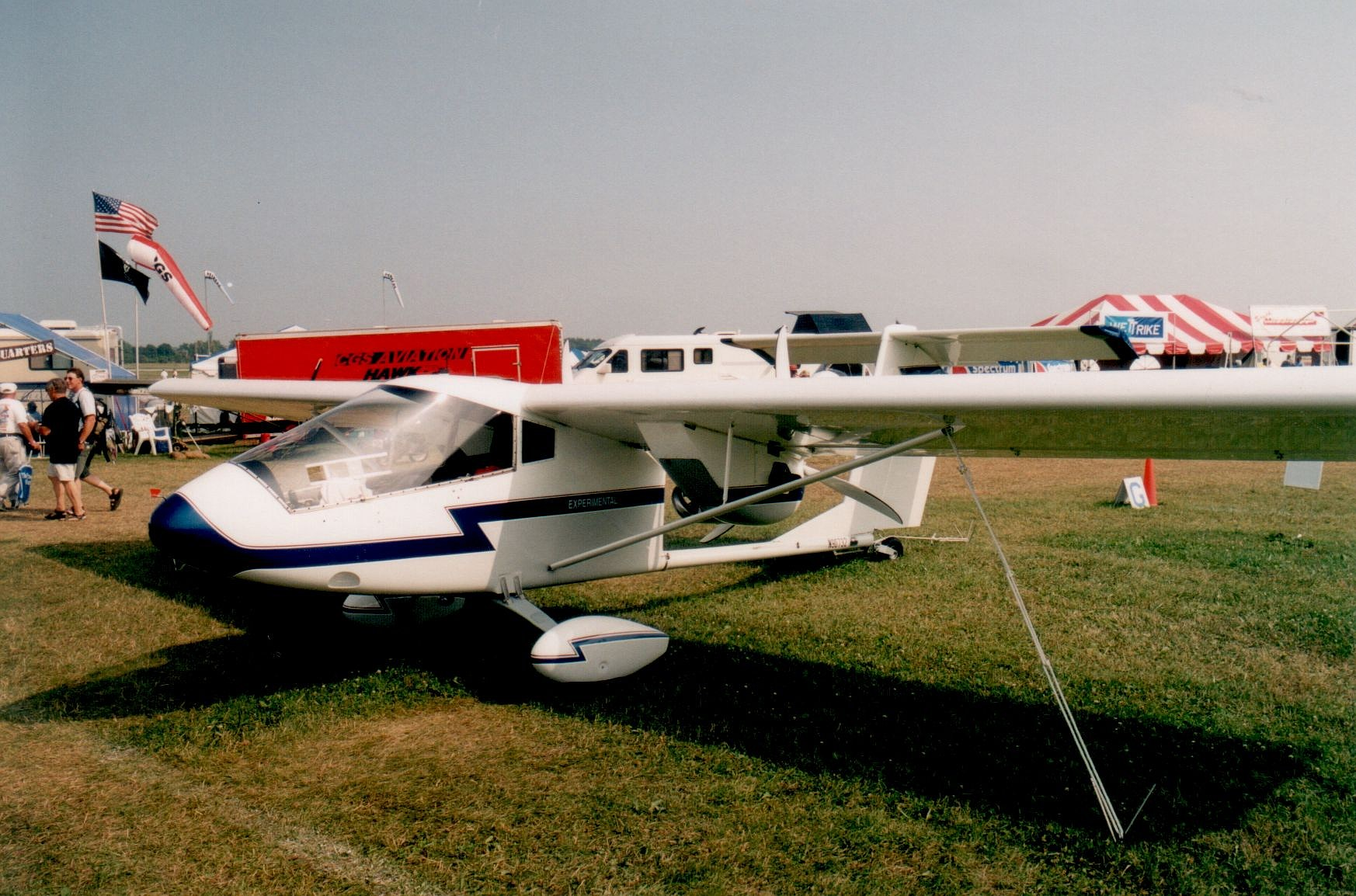 Aeroprakt A-26 Vulcan at AirVenture, Oshkosh 2001